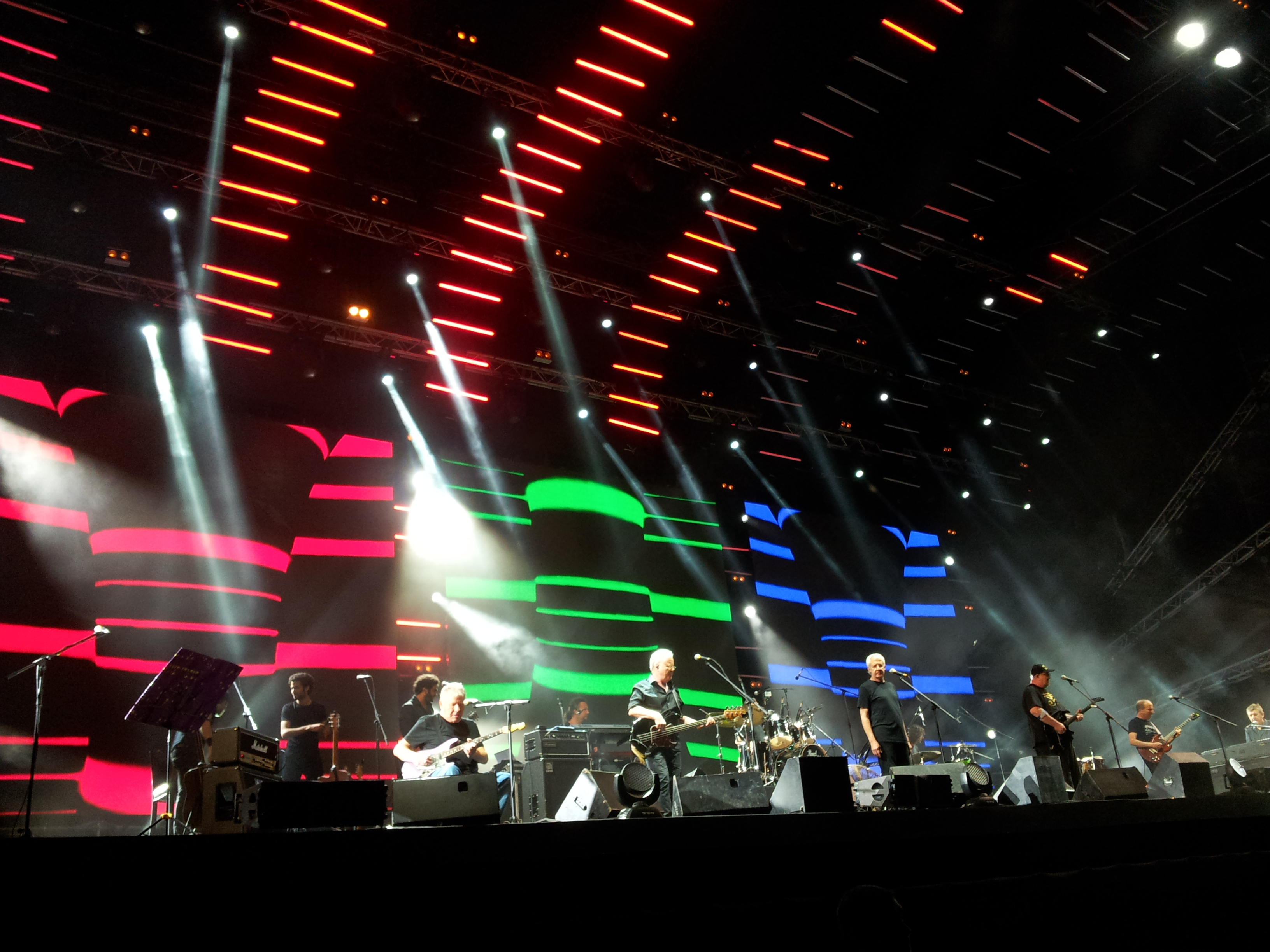 Kaveret, The Last Reunion, 7 August 2013